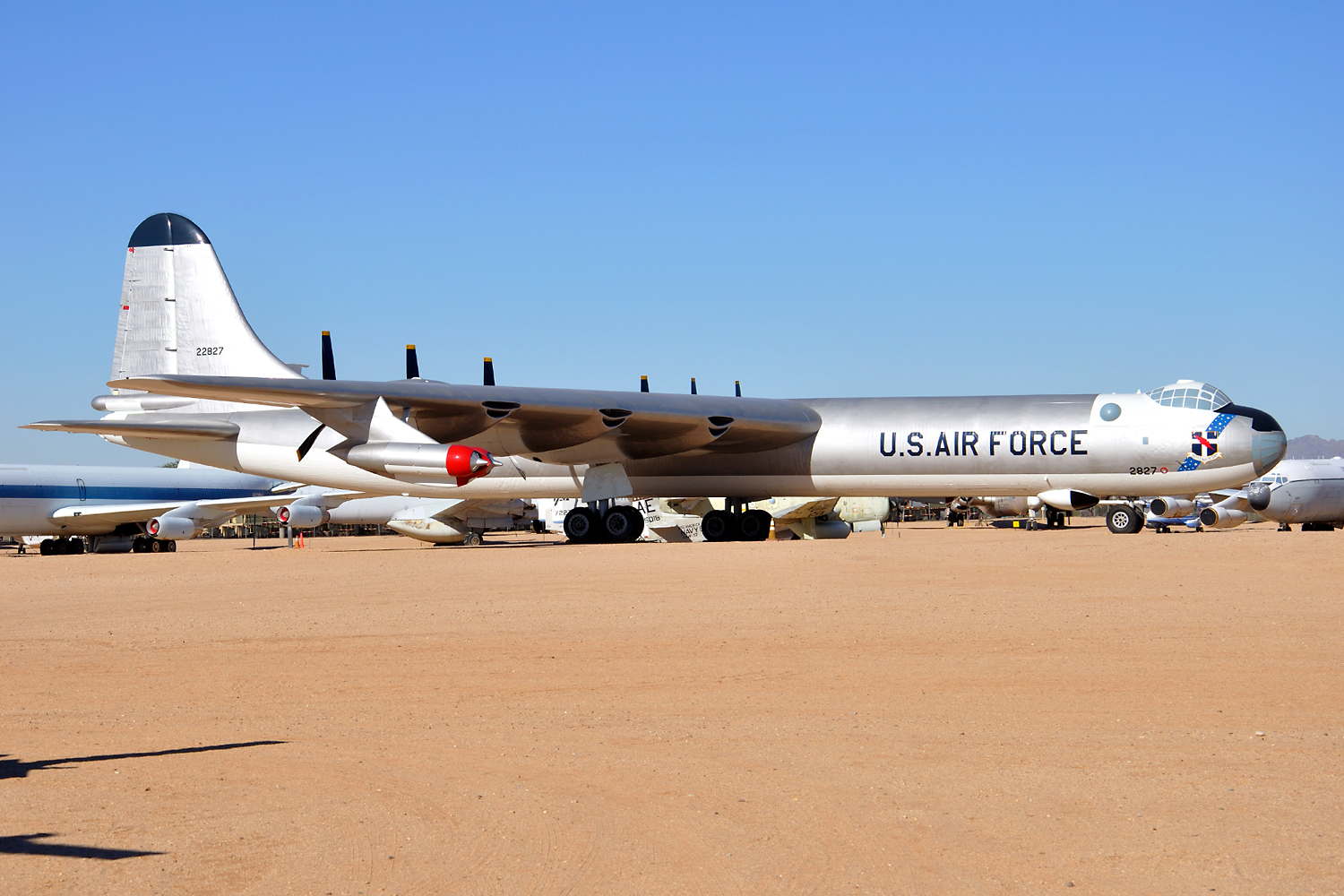 Pima Air and Space Museum - Six turnin', four burnin'. This beutifully restored B-36 once belonged to the 95th Heavy Bombardment Wing at Biggs AFB, TX.This is a 'Wow!' 'plane for sure.